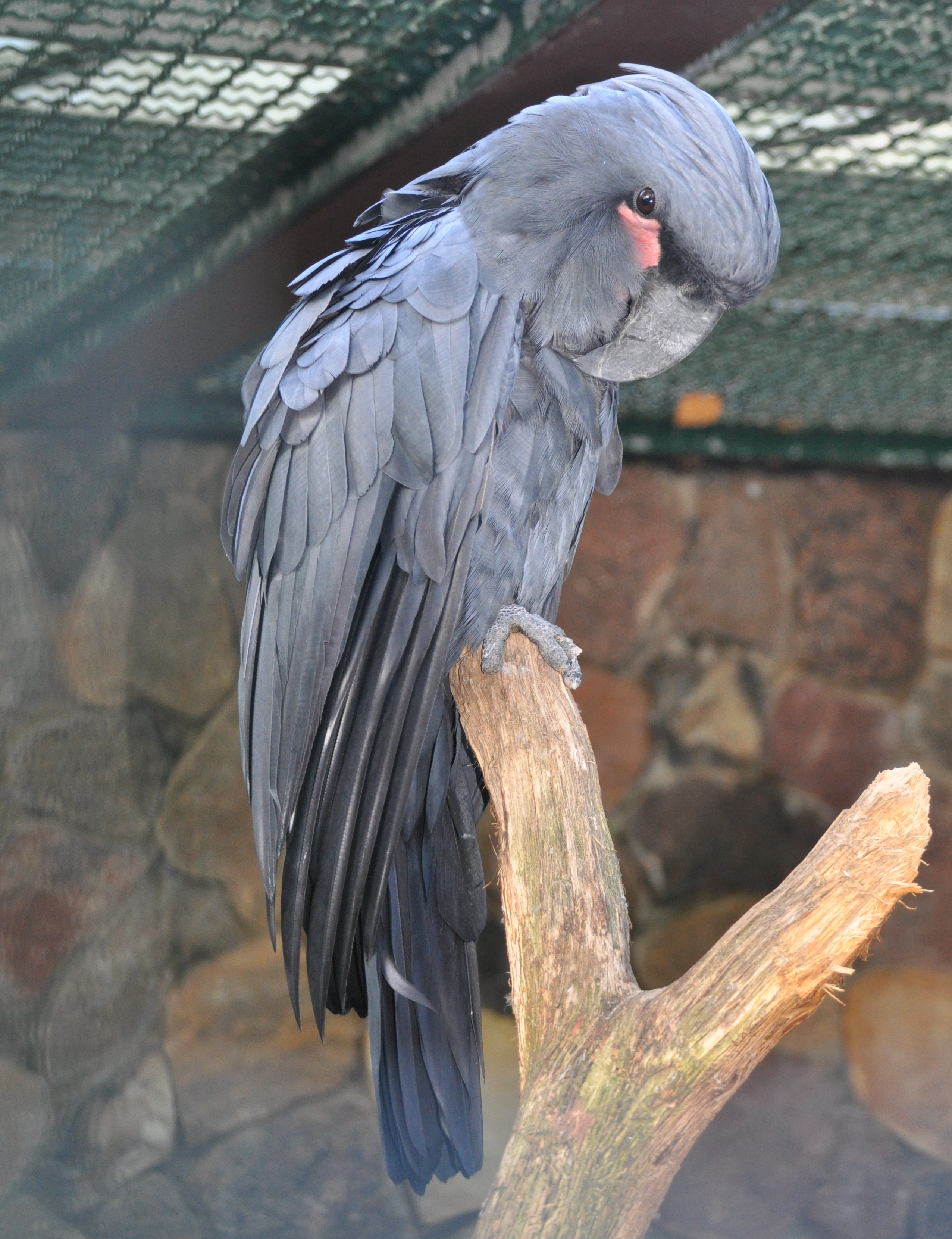 Palm Cockatoo in the Walsrode Bird Park, Germany.